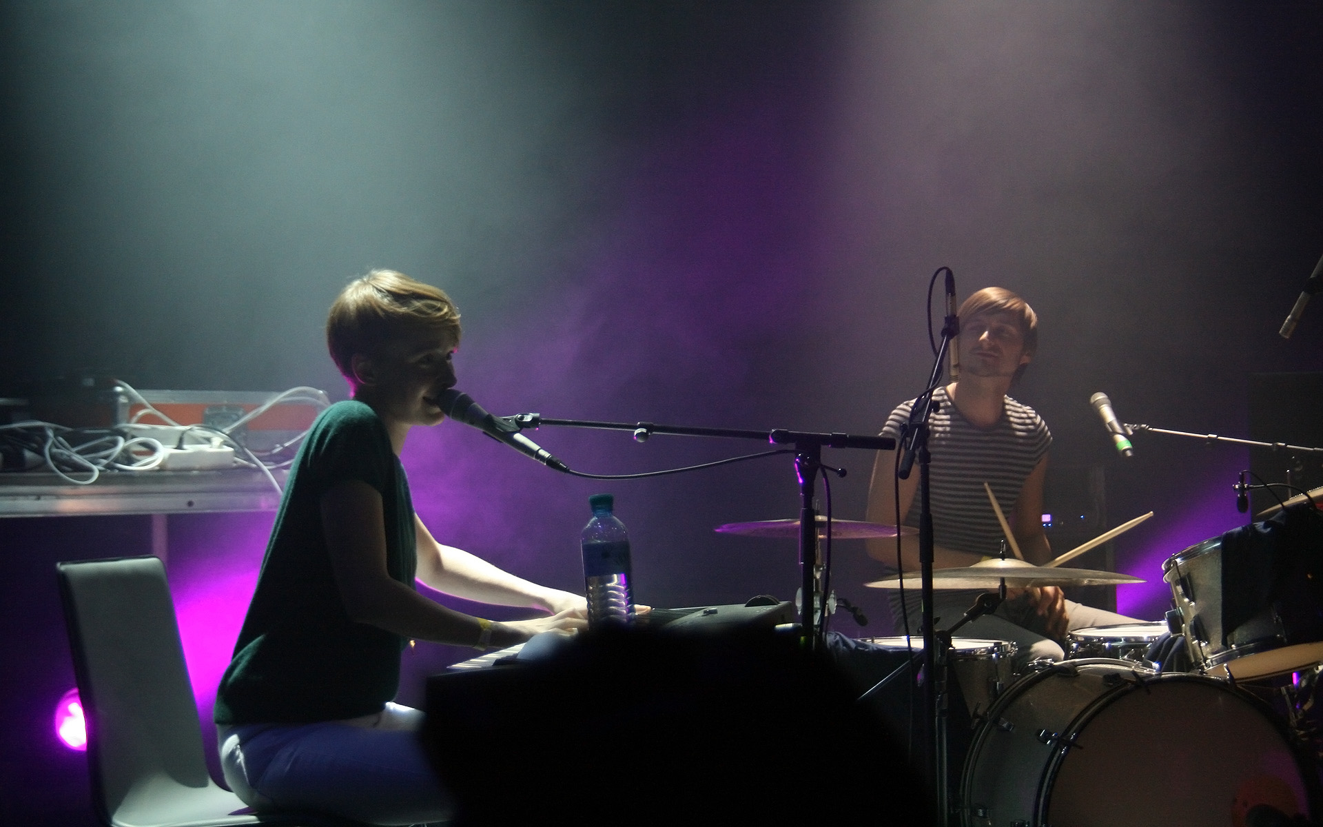 Violetta Parisini with Alex Pohn - charity evening wiener melange 2011 for the Integrationshaus at Brauerei Ottakringer in Vienna.